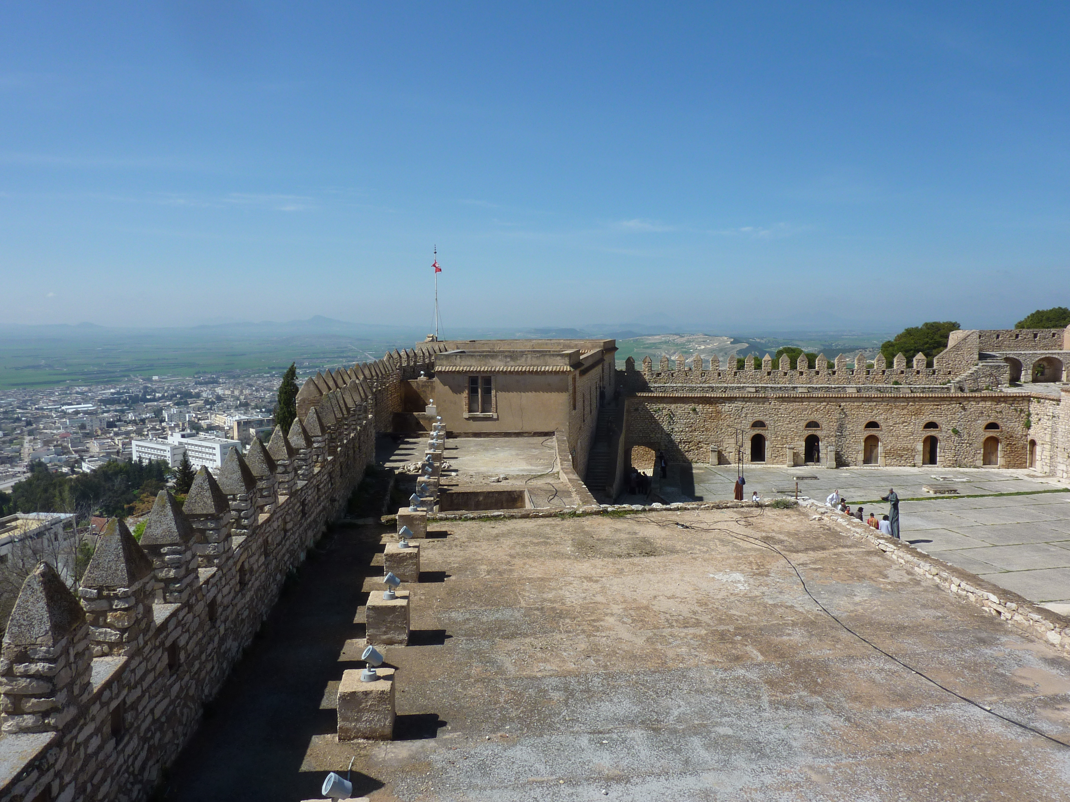 Fort of El Kef and surroundings